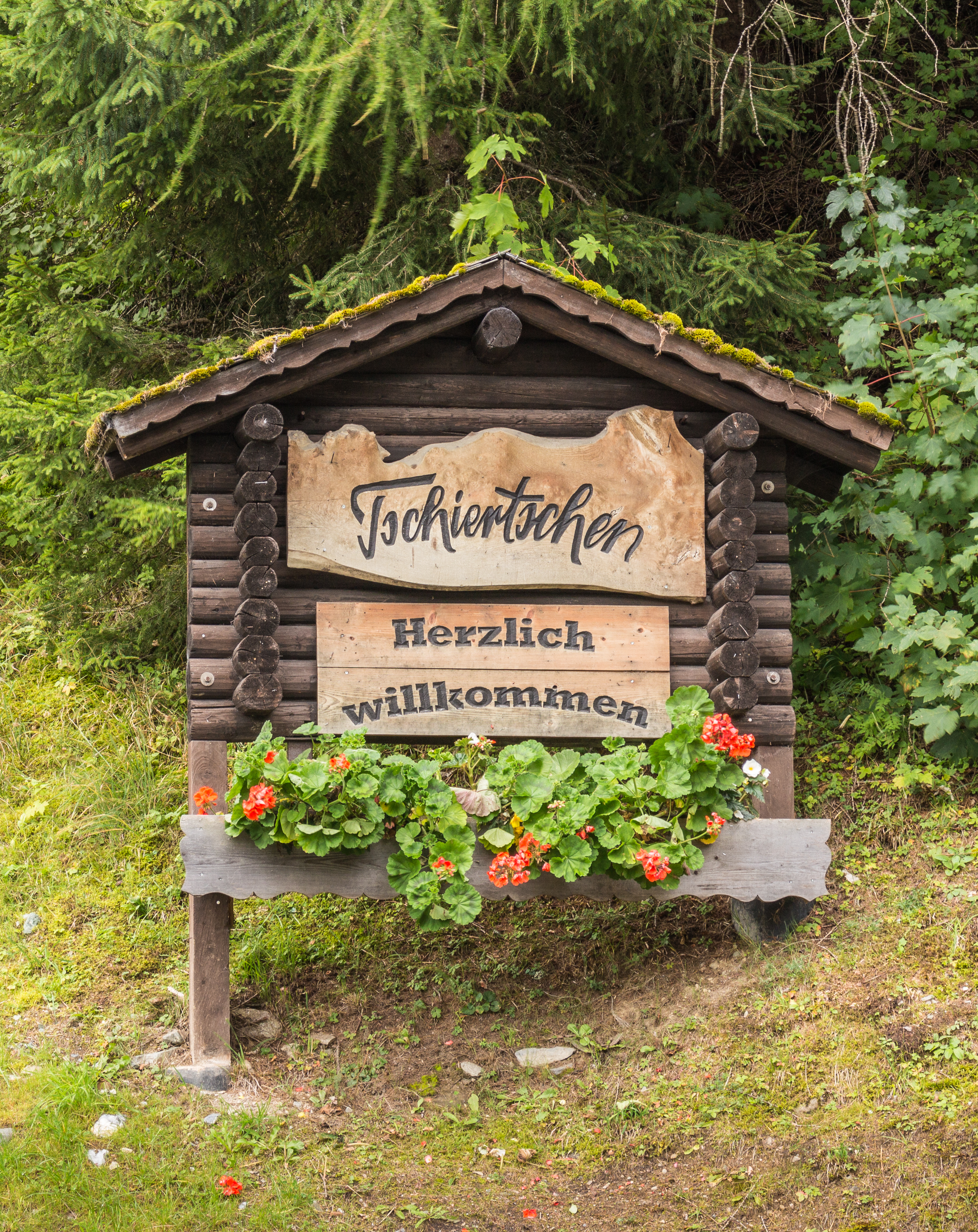 Mountain trip from Churwalden Mittelberg (1500 meter) via Ranculier and Praden towards Tschiertschen. Welcome sign entrance road for Tschiertschen.